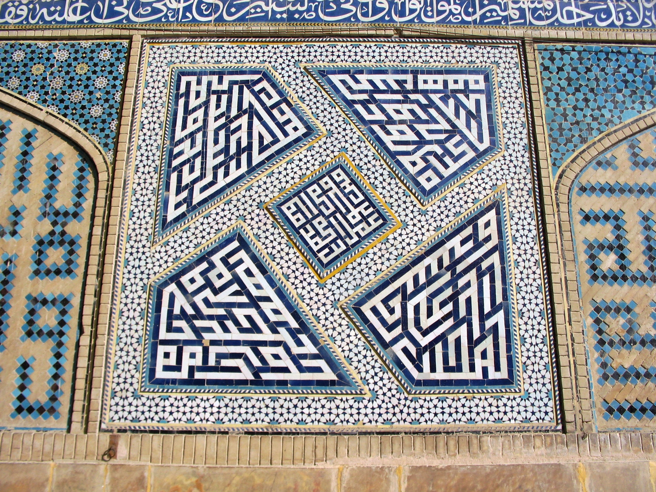 Geometric style caligraphic inscription at Shah Mosque in Esfahan, Iran.